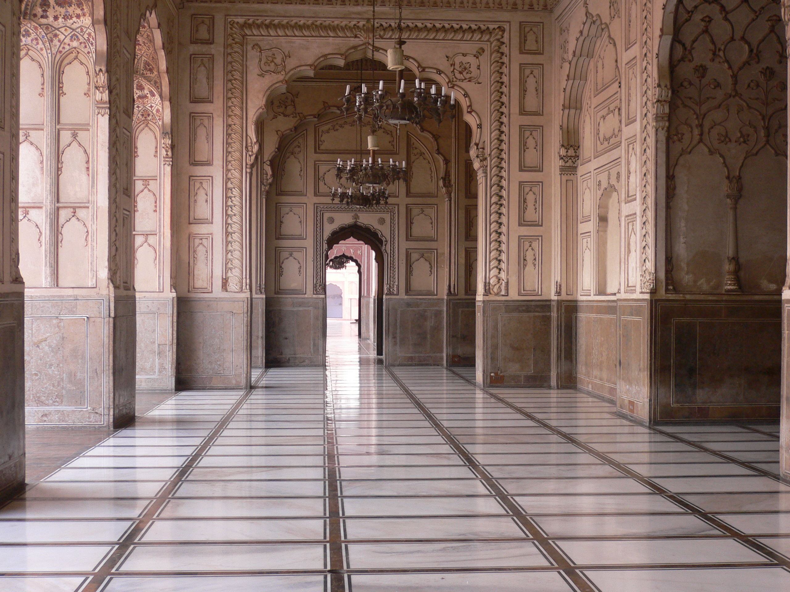 Mosque at Lahore